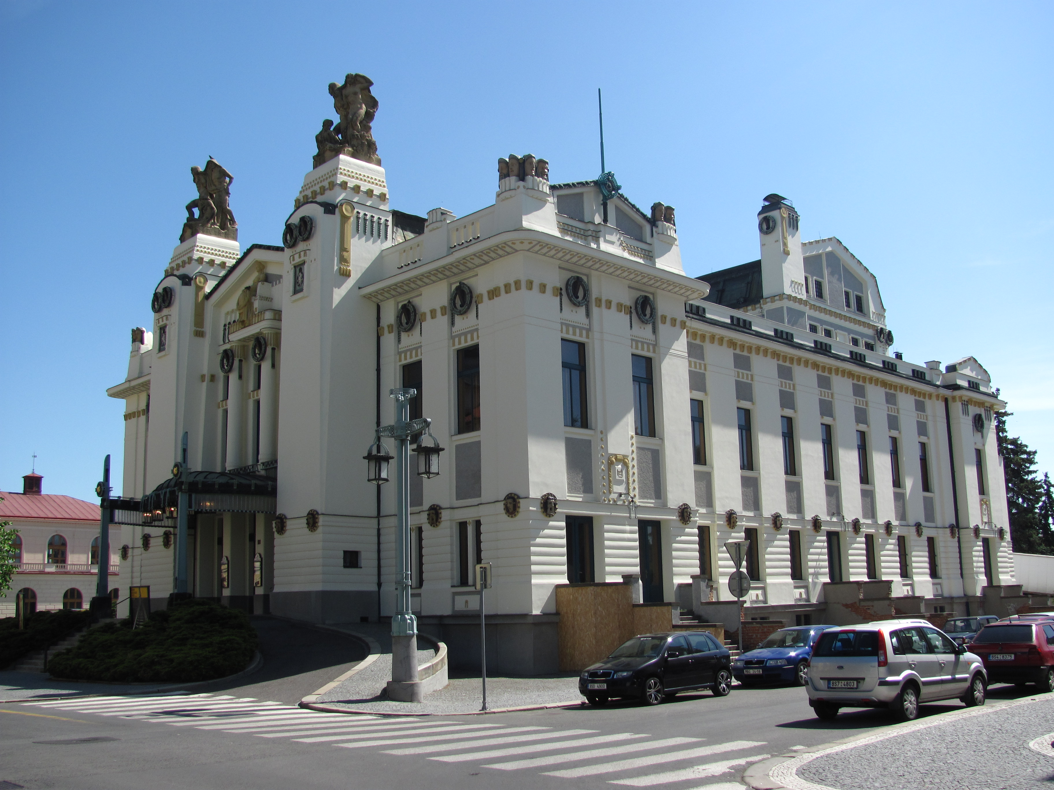 The theatre in Mladá Boleslav (1909)